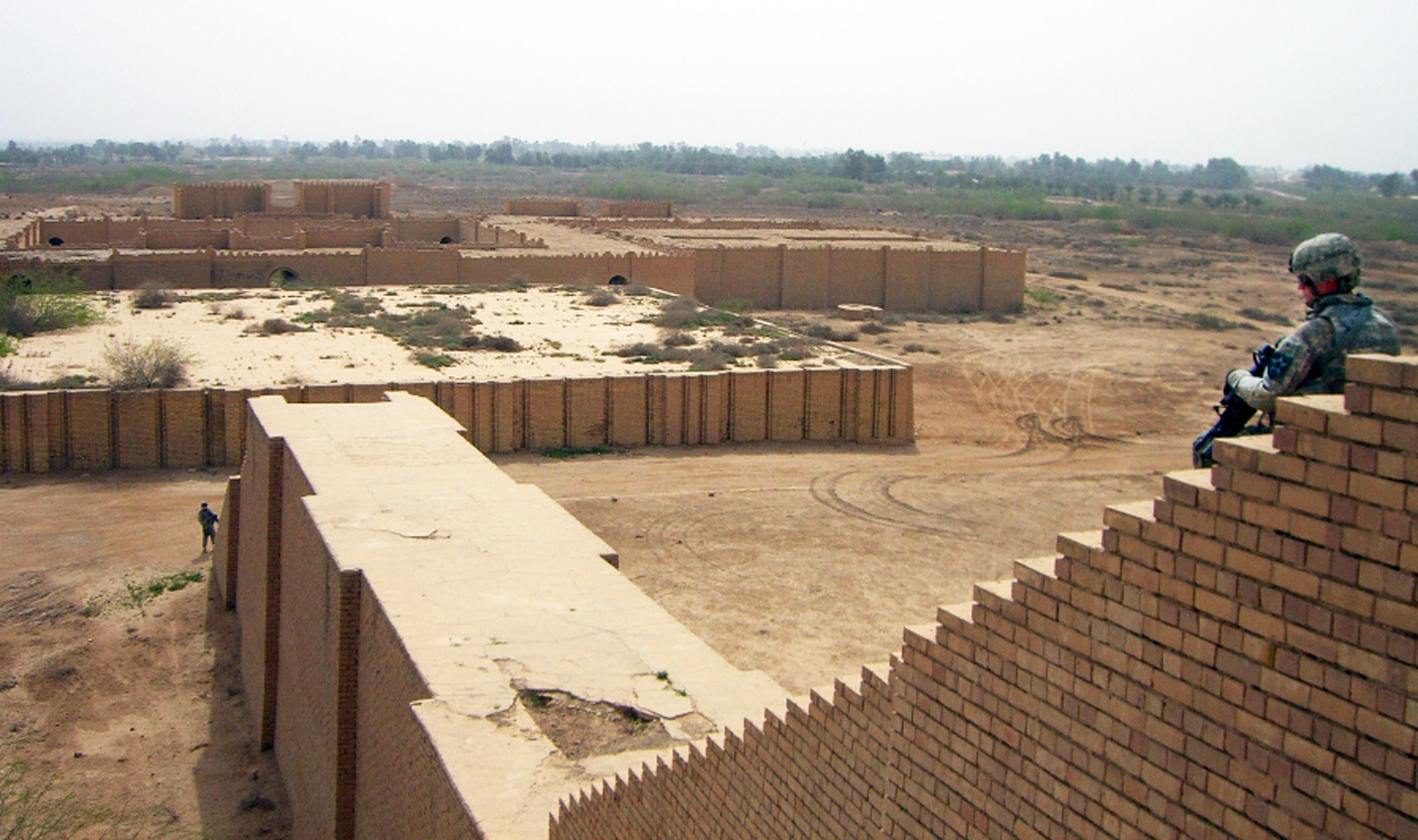 Providing security, a member of the U.S. Army 4th Stryker Brigade Combat Team, 2nd Infantry Division, looks down from the steps of the ziggurat at Aqar Quf, March 11, during a site visit by Soldiers of the 16th Engineer Brigade Survey and Design Team. The engineers traveled to the ancient ziggurat in Aqar Quf to assess and verify the electrical needs of renovating two modern structures on the site. The ziggurat, more than 3,500 years old, was once a popular tourist destination in Iraq. The site now lays dormant. (U.S. Army photo by Spc. David Robbins) United States Division-Center Date: 03.11.2010 Location: BAGHDAD, IQ Related Photos and News